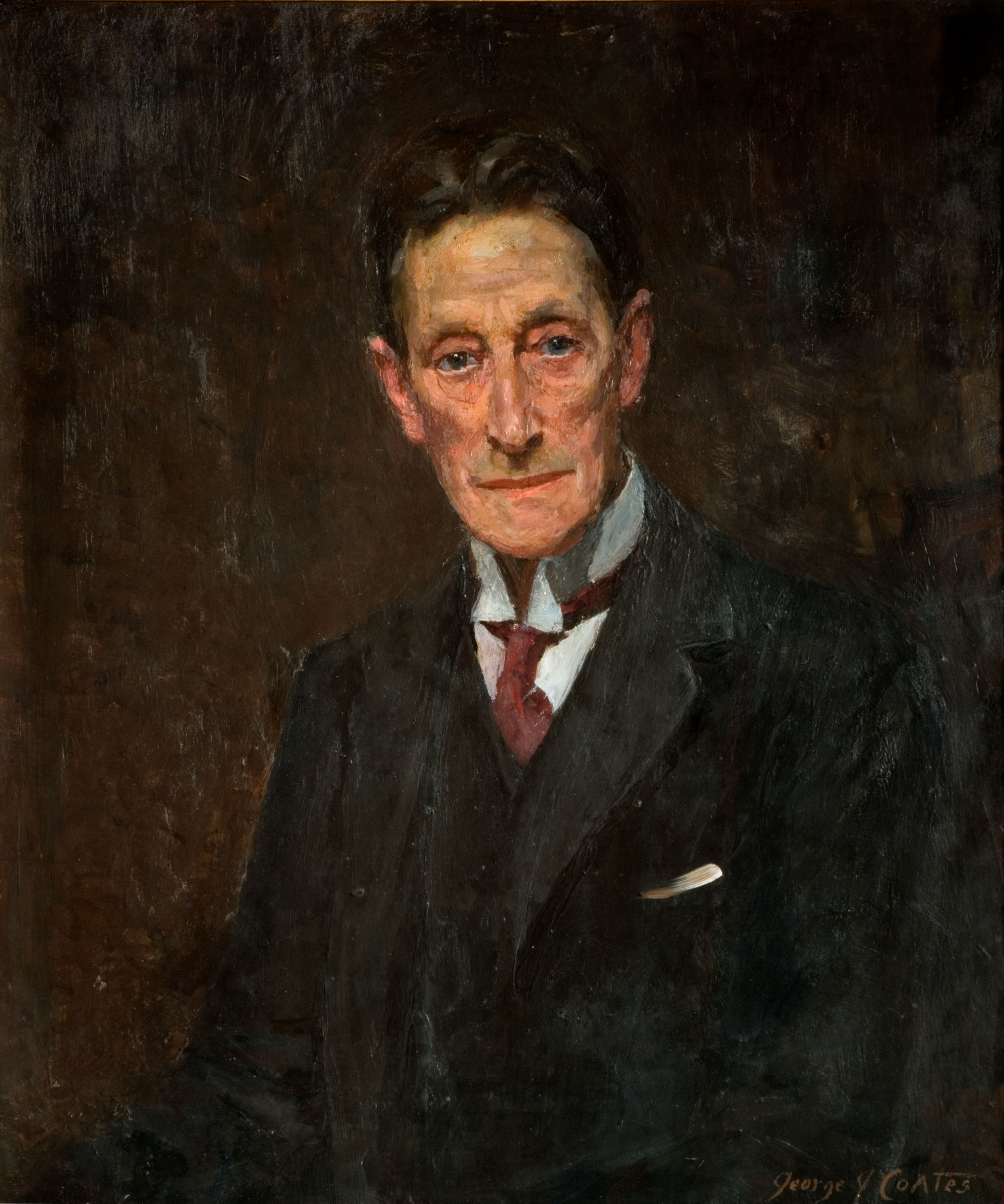 Sir Johnston Forbes-Robertson, Actor and Theatre Manager, painted by George James Coates c. 1900-1925.